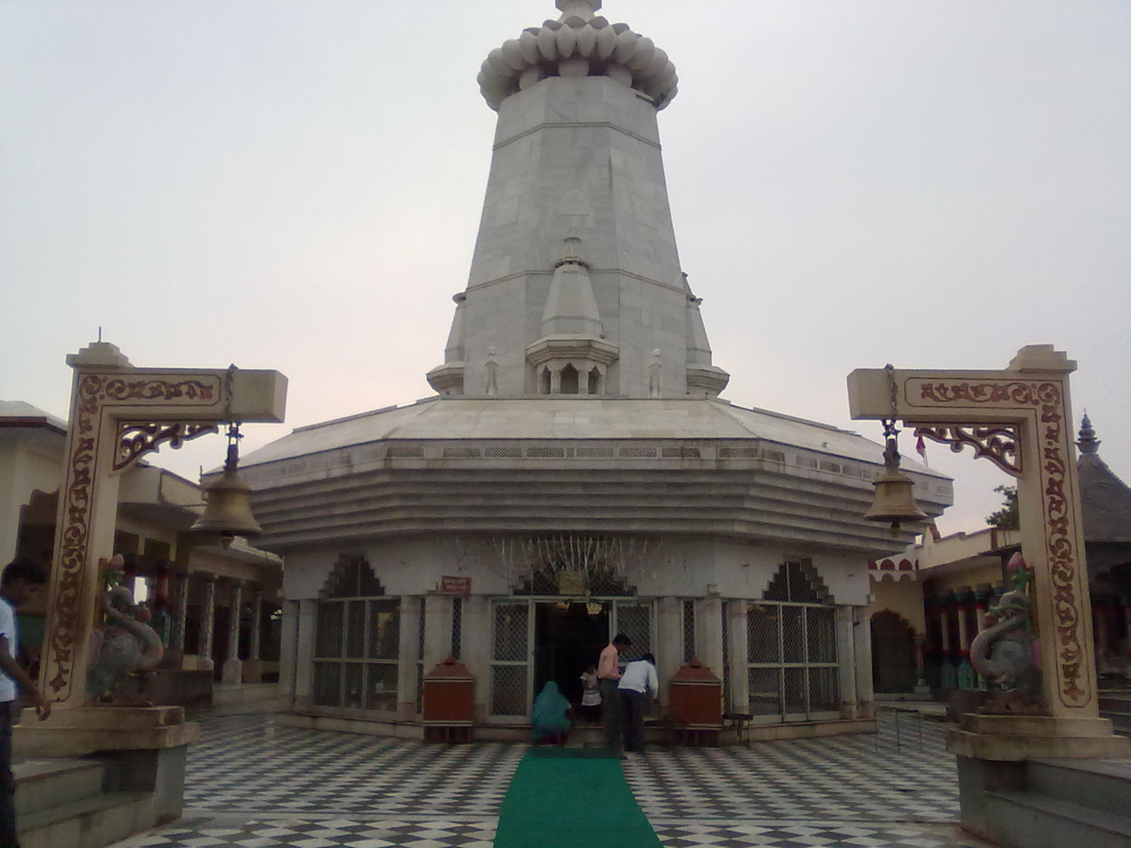 it is the shiv temple situated at the hill in kundeshwar